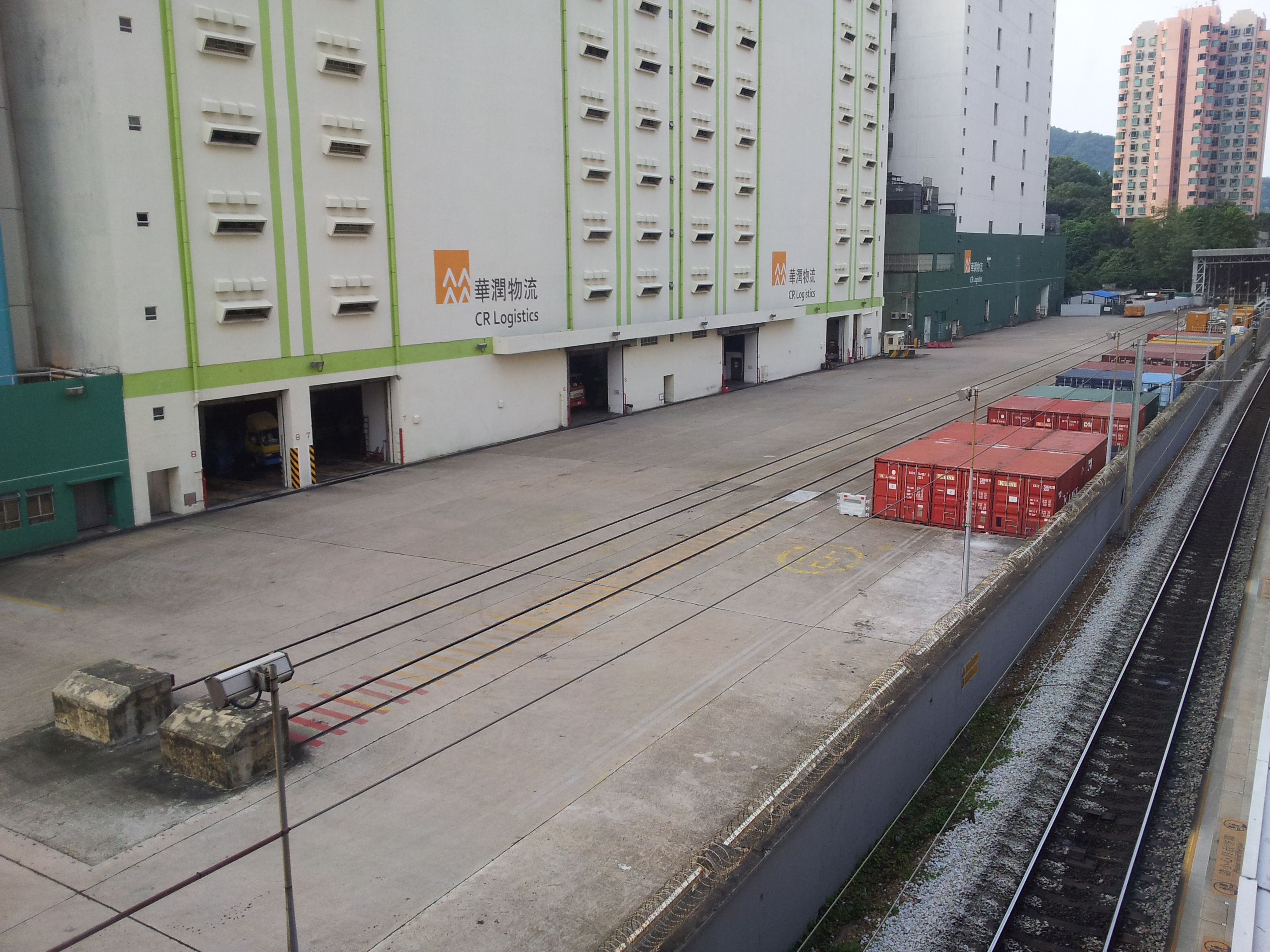 fotan freight yard